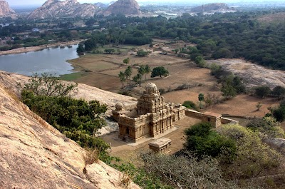 Narthamalai, Pudukkottai, Tamilnadu